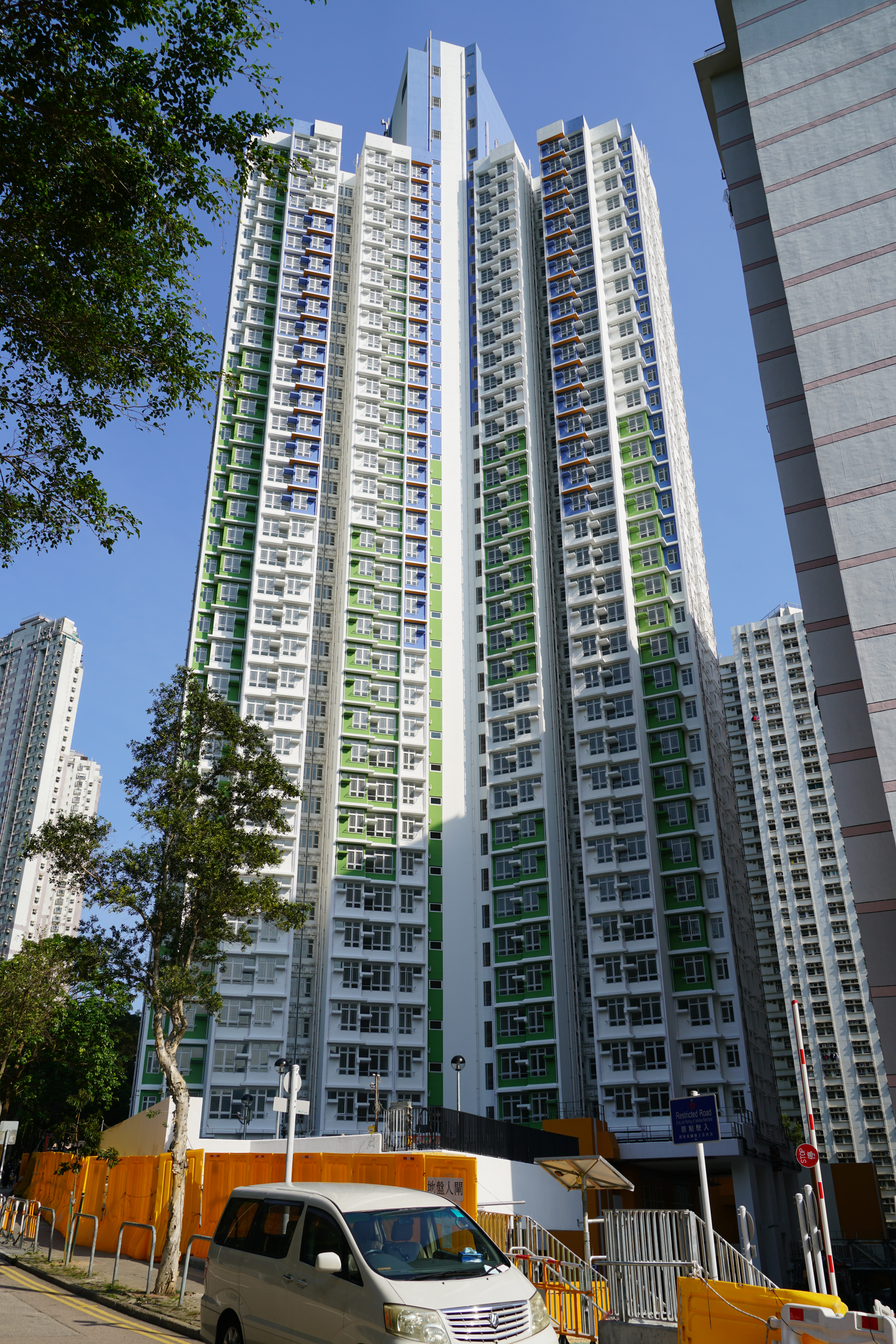 Fu Shan Estate, Hong Kong.